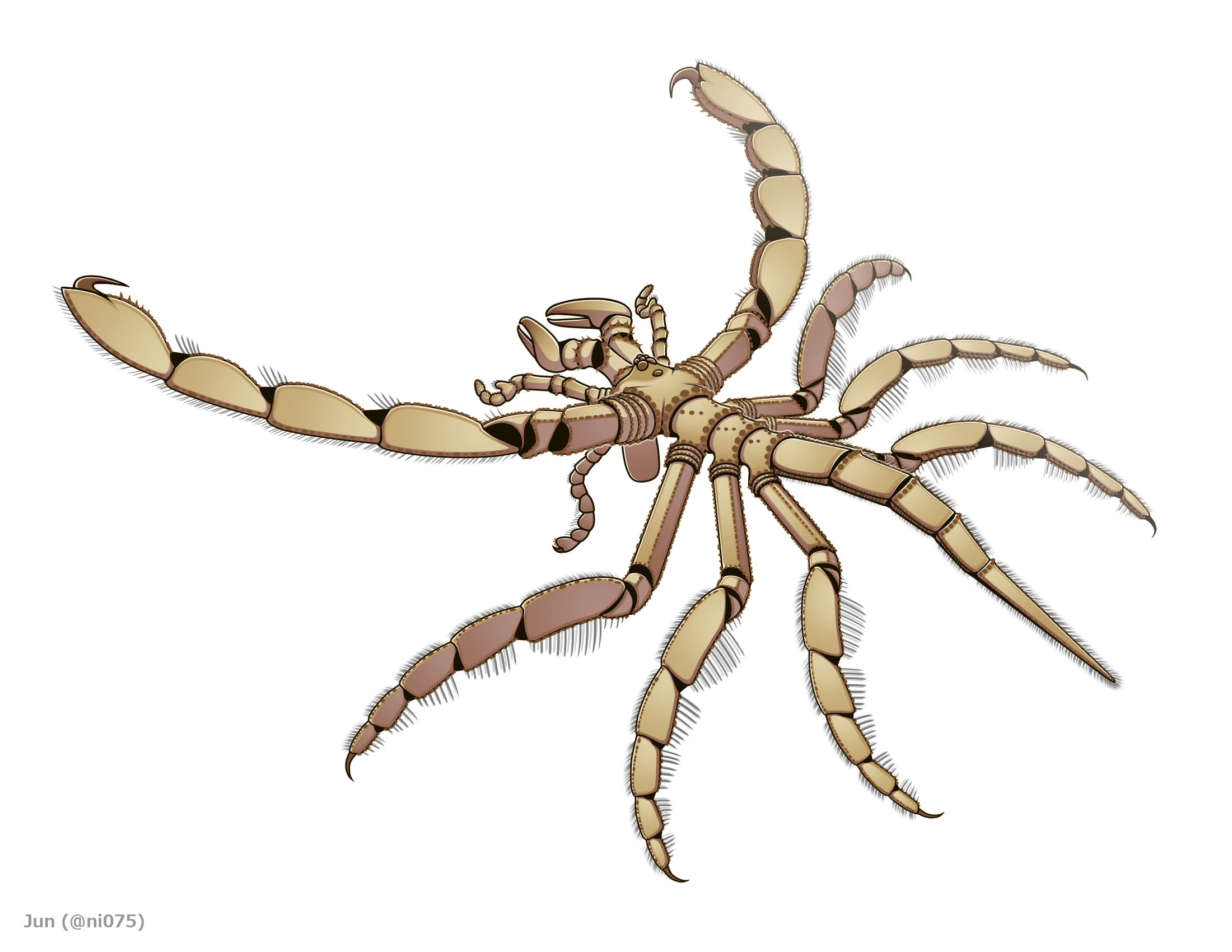 Reconstruction of Palaeoisopus problematicus, a devonian sea spider (pycnogonid).